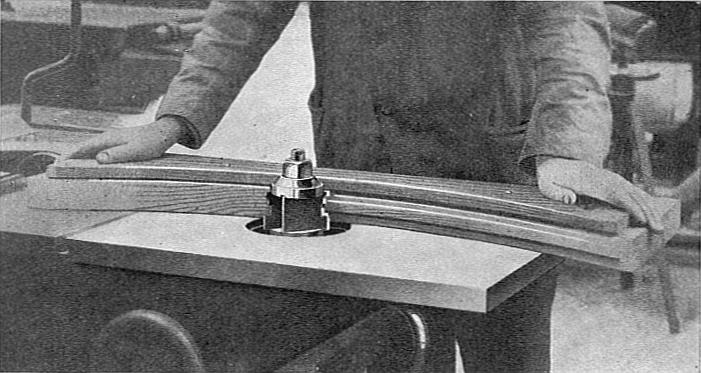 Curved work on a spindle moulder